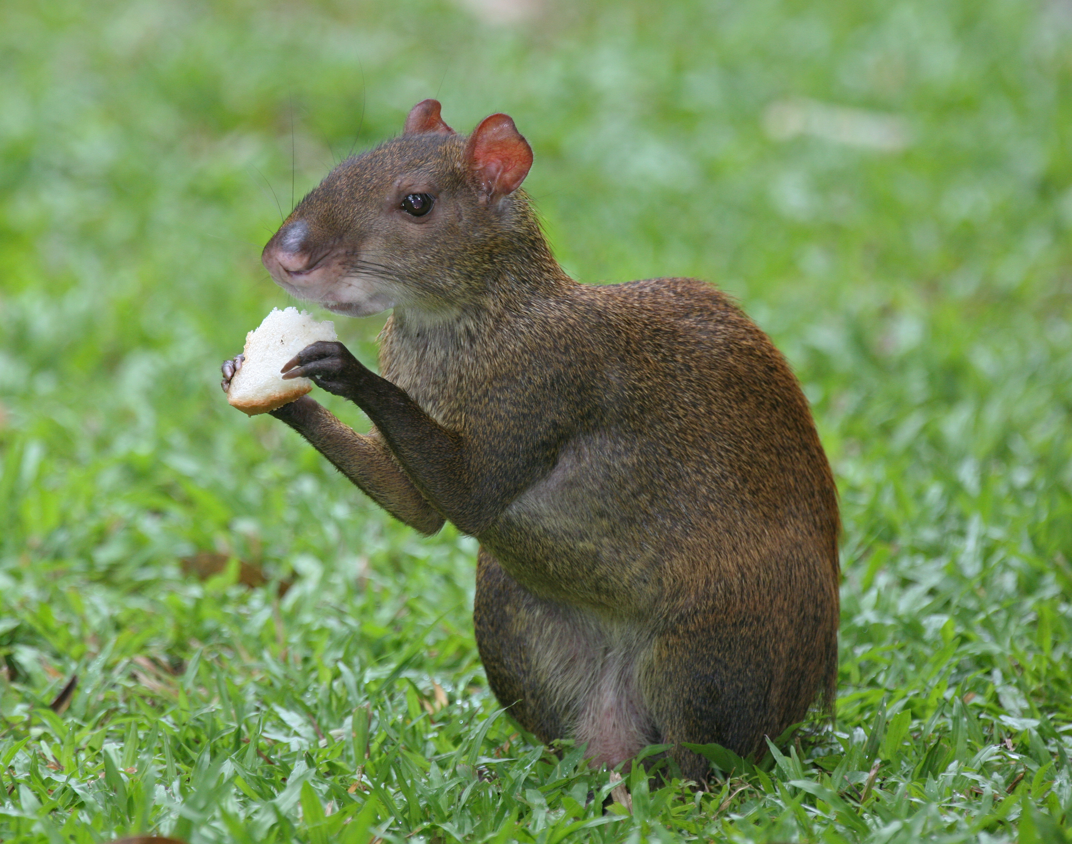 A Central American Agouti (Dasyprocta punctata) in Panama experimenting with a western diet.